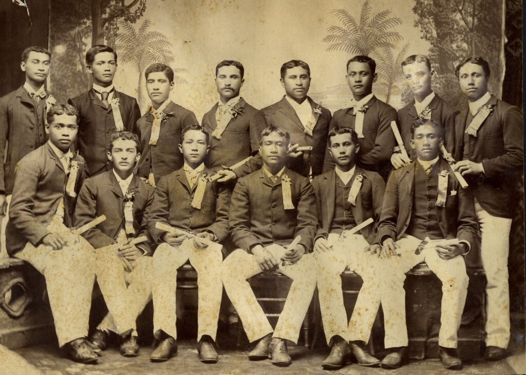 Seated from left to right: John Waiamau, Sam Keliinoi, William Olin Crowell, Robert Pahau, Charles Blake, Thomas N. Hase. Standing: William Manaole Keolanui, Fred Beckley, Solomon Hanohano, William Rathburn, Sam Kauhane, Moses Kauwe, Charles E. King, W. E. Brown.